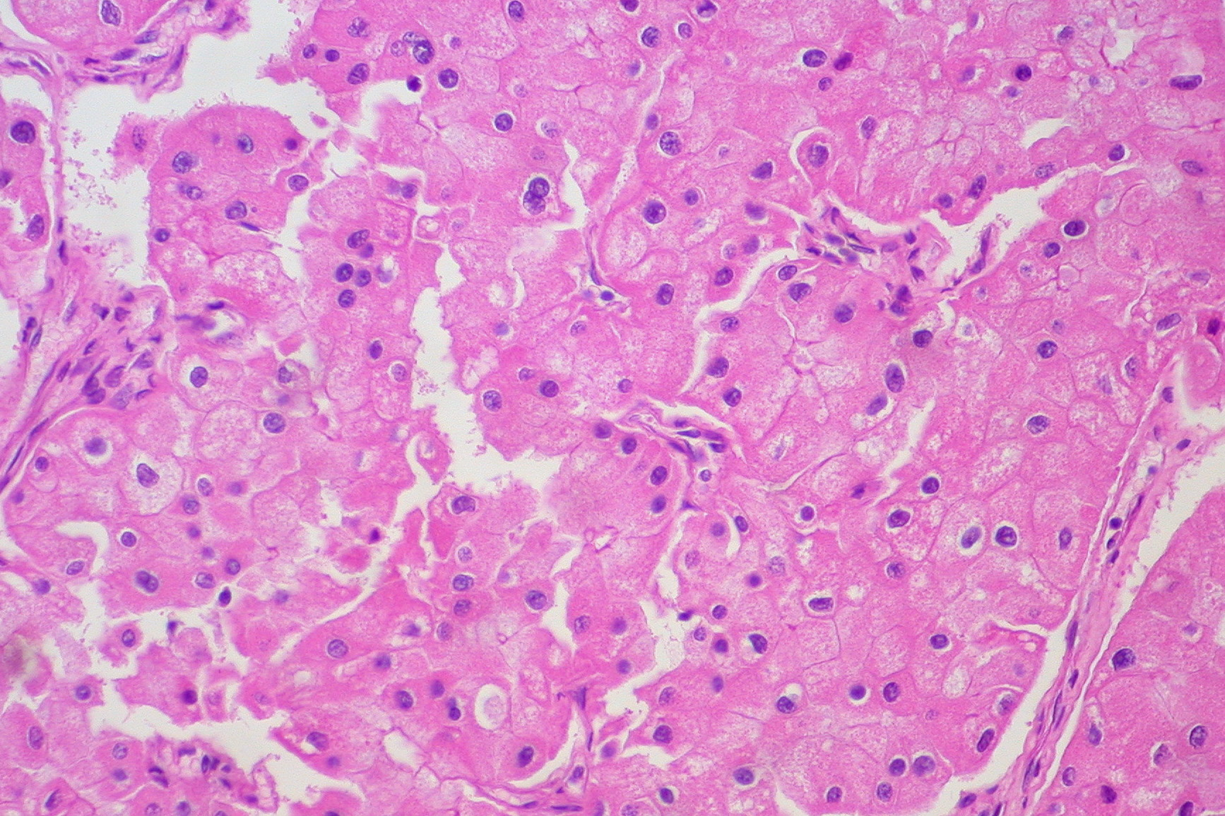 From a slide study set Pathological and histological images courtesy of Ed Uthman at flickr.